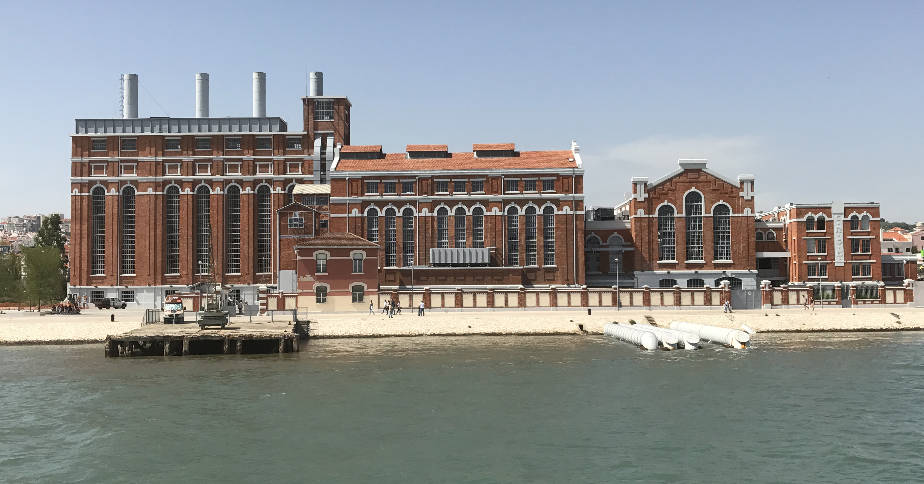 The Tejo Power Station seen from the river.